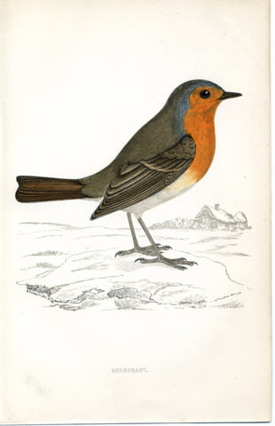 Redbreast Baxter print c1880